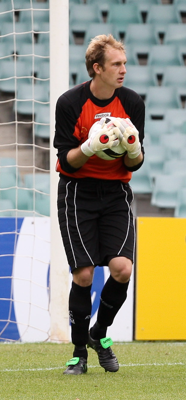 Matthew Nash playing for the Central Coast Mariners Youth team against Sydney FC Youth.